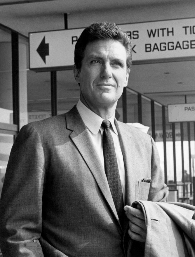 Photo of Robert Stack from the television program The Name of the Game.